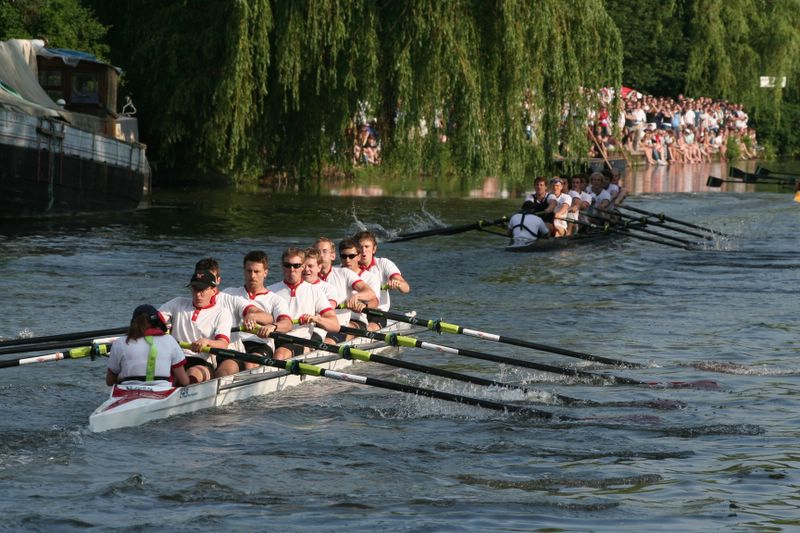 LMBC 1st VIII racing the Lady Margaret Lane